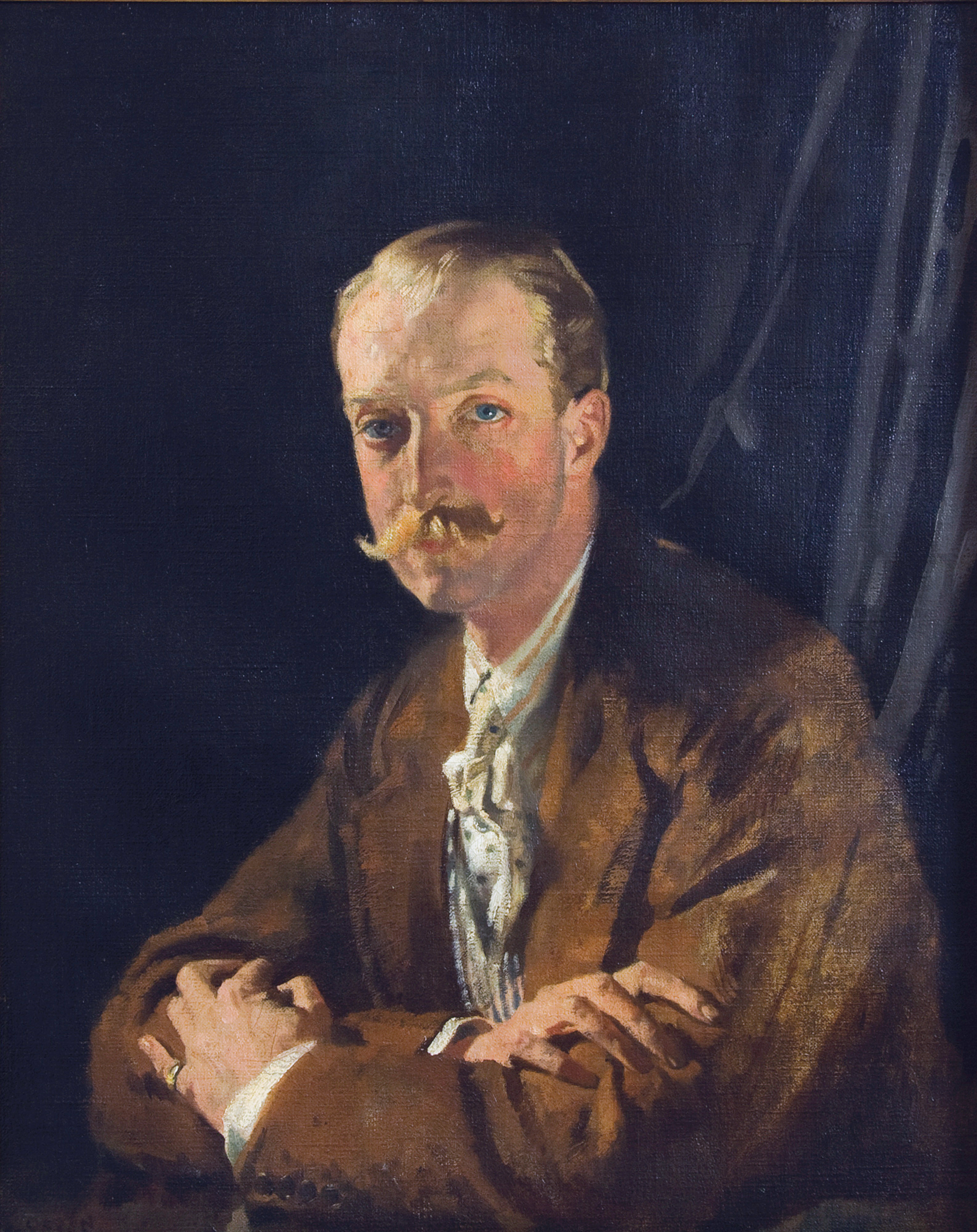 Geoffrey, Fourth Marquis of Headfort oil on canvas 81.5 x 66 cm signed l.l.: ORPEN